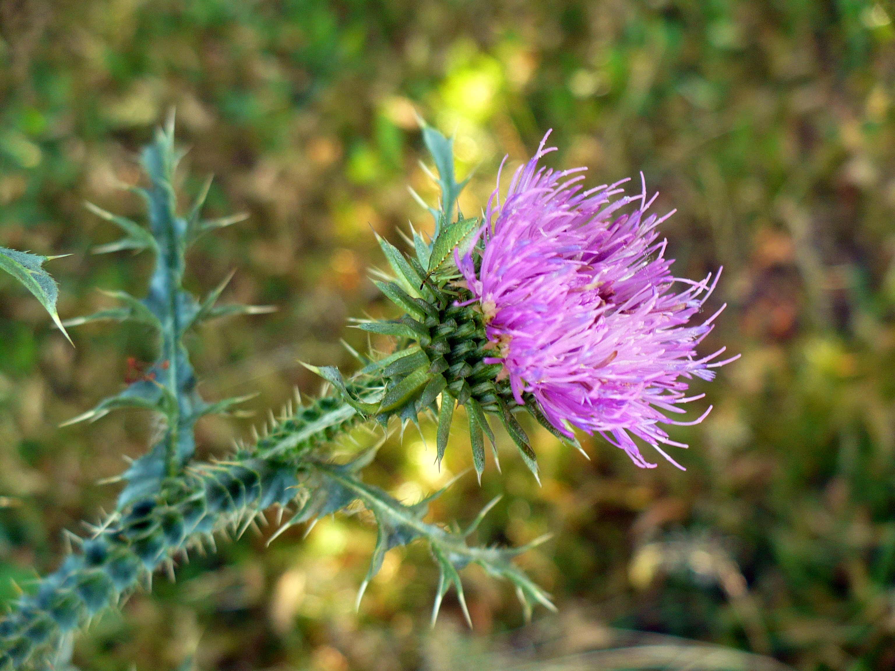 Carduus acanthoides (flower)